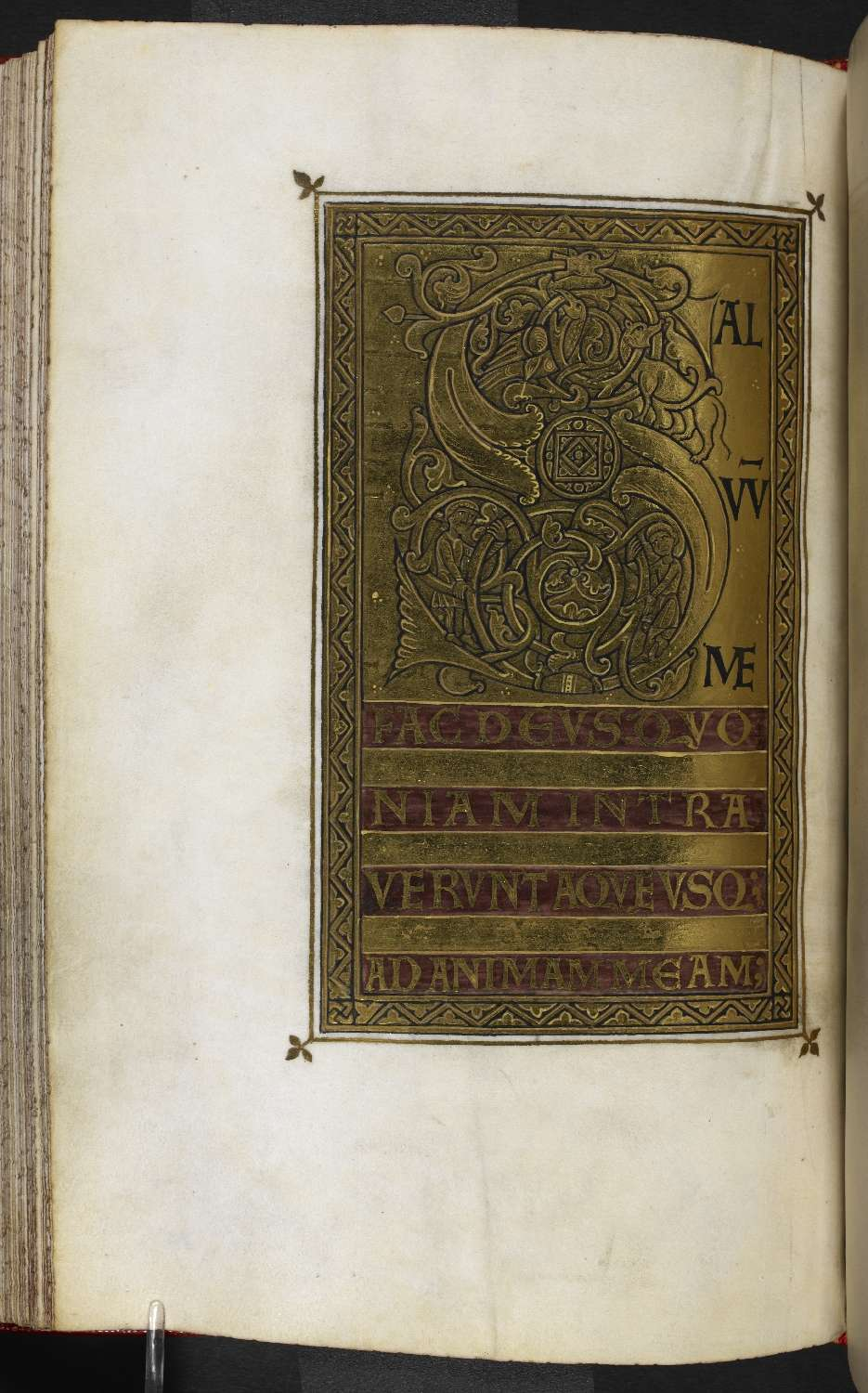 Melisende Psalter f89v, incipit psalm 68